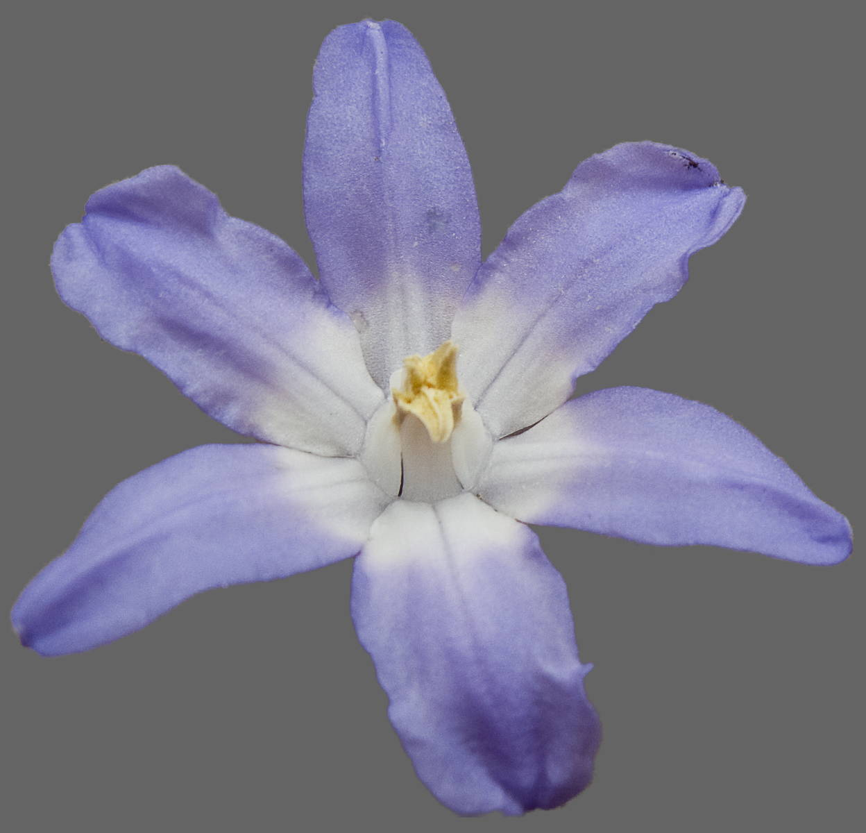 Close up of a flower of the common garden species of Chionodoxa showing the 'cup' formed by the flattened filaments of the stamens.